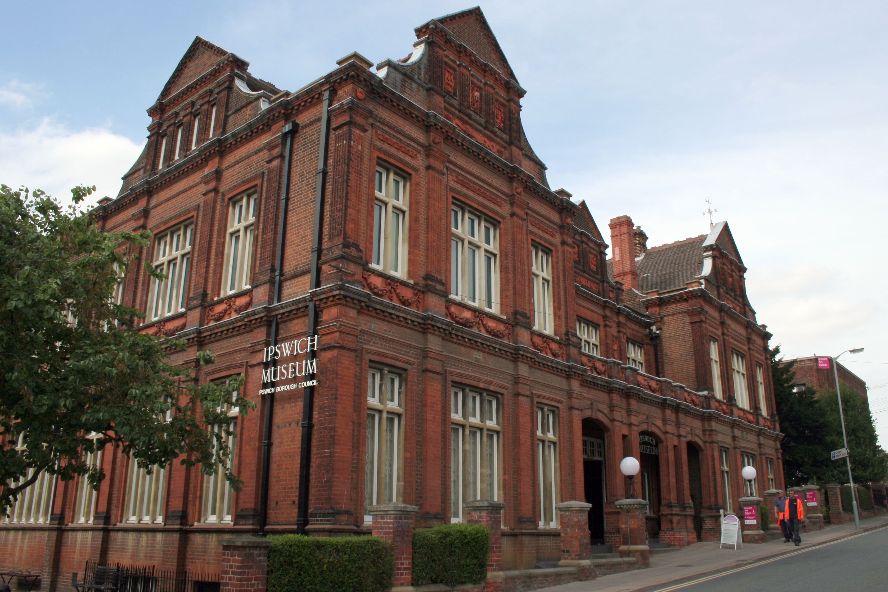 Ipswich Museum viewed from the High Street in August 2013.